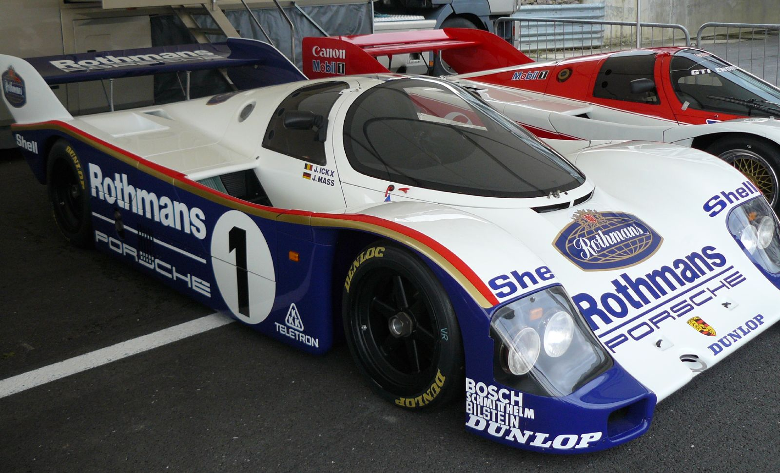 A Porsche 956 at the Silverstone Classic